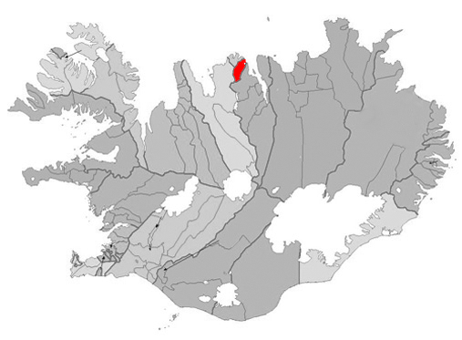 Based on Municipalities of Iceland.png.